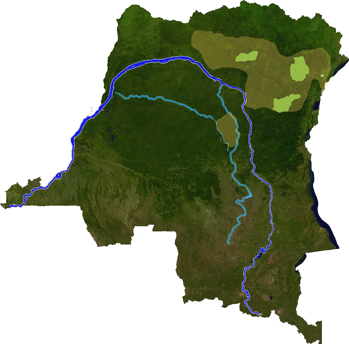 Okapi range map Orange: Okapia johnstoni distribution; Blue: Congo river; Turquoise: Lomami and Tshuapa rivers; Green: Maiko National Park (bottom), Mount Hoyo Reserve (the speck on the right), Okapi Wildlife Reserve (Middle), Rubi Tele Hunting Reserve (left)